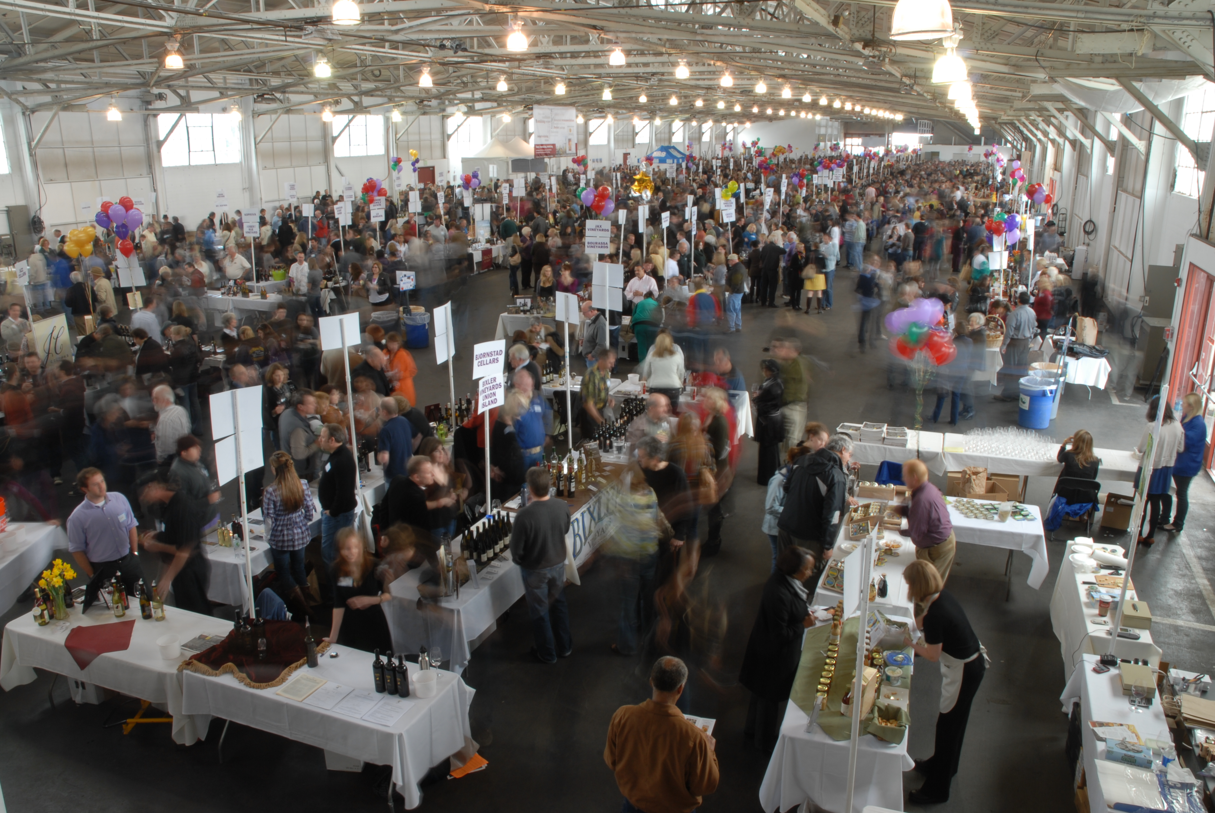 Public tasting event of the San Francisco Chronicle Wine Competition 2010. Festival Pavilion, Fort Mason Center, San Francisco, California. The background features the Golden Gate Bridge